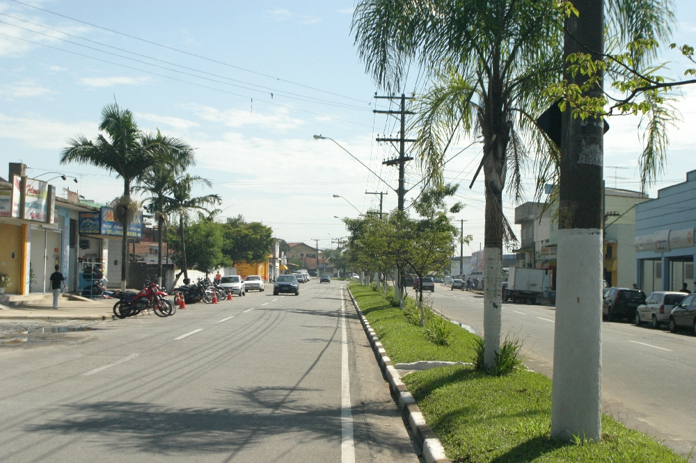 image form city Poá